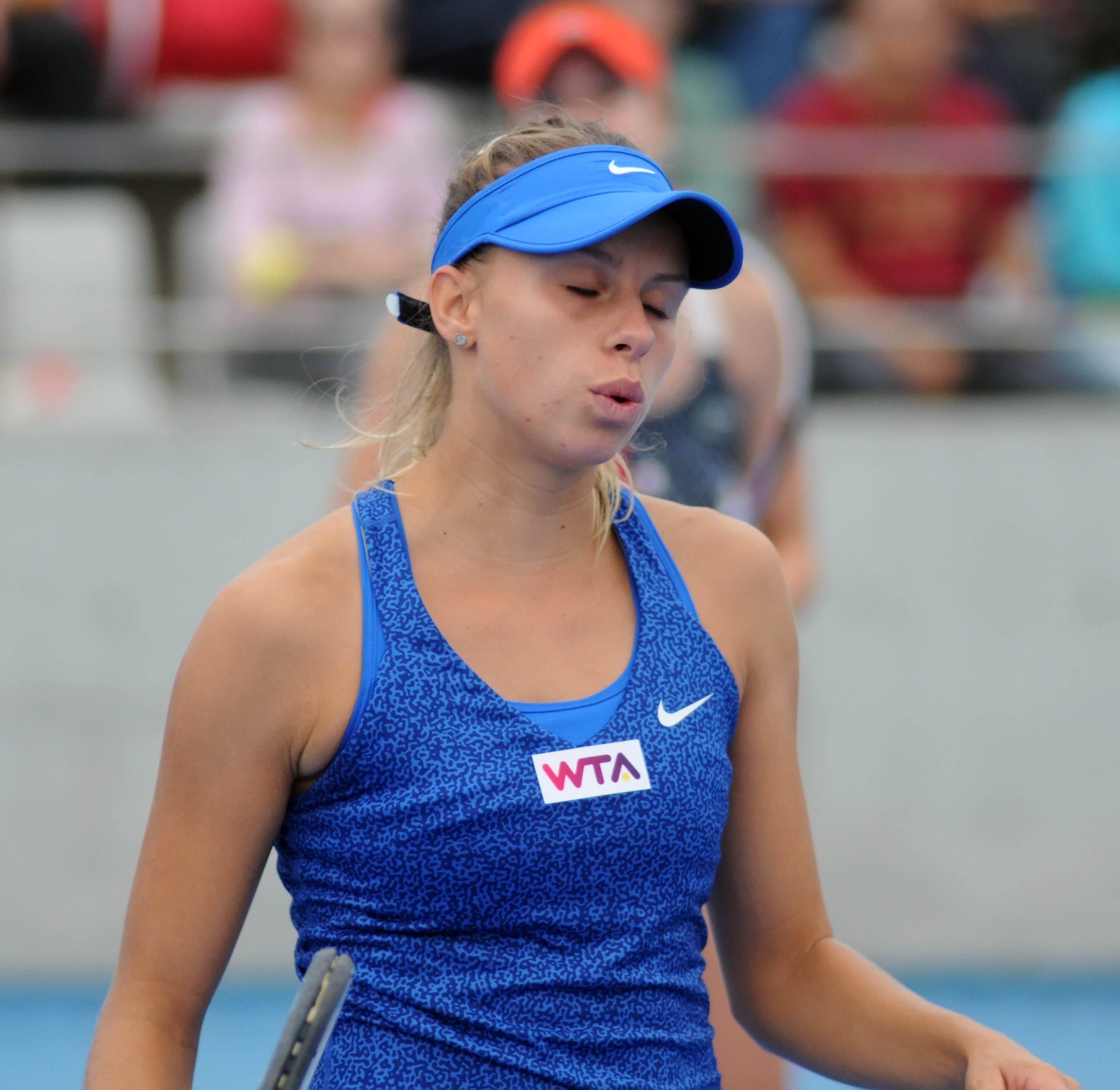 Magda Linette at the 2014 China Open